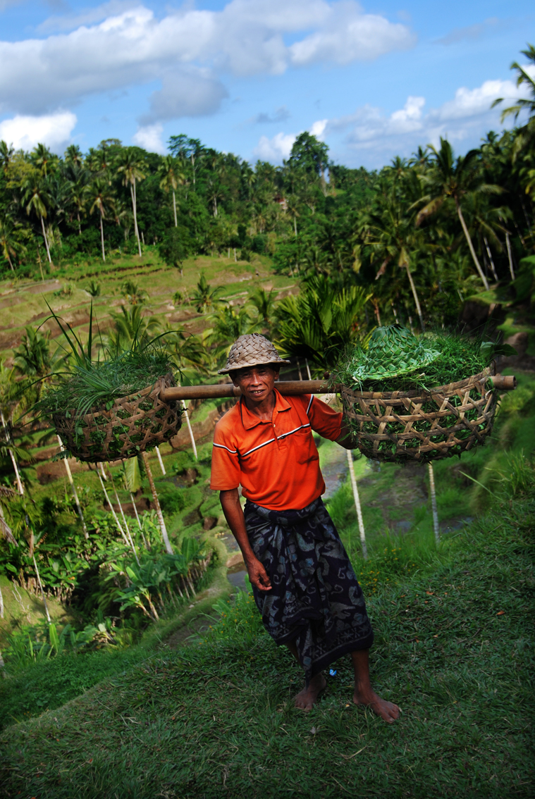 A farmer at the Rice Terrace of Tegallalang